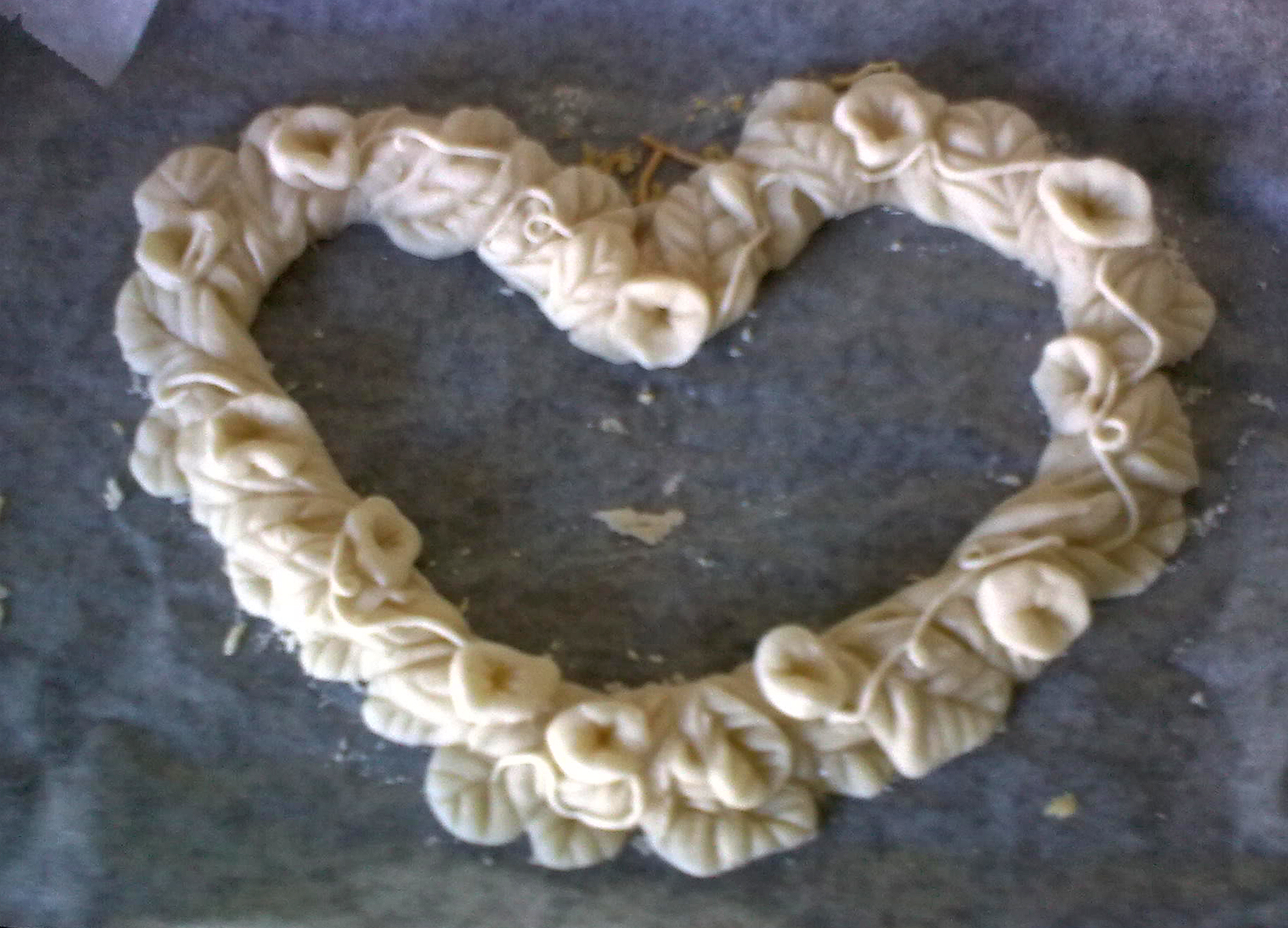 Kranssi